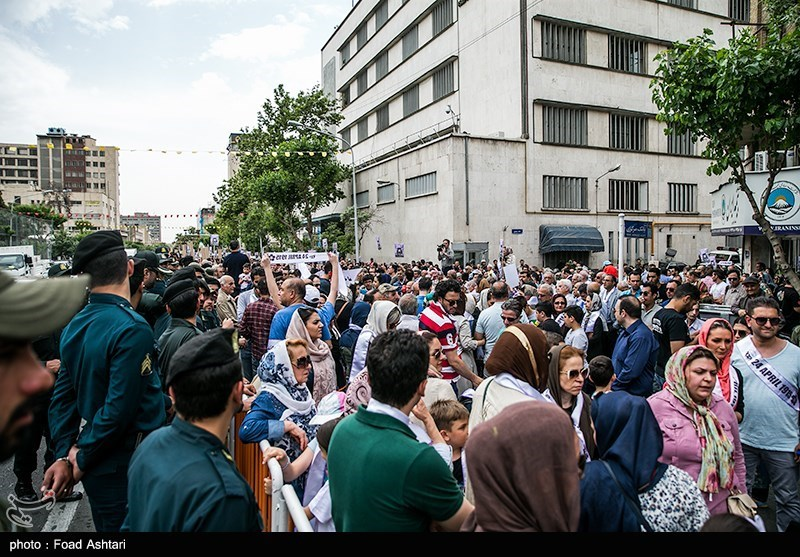 Armenian Genocide Memorial Demonstration - Tehran 2017